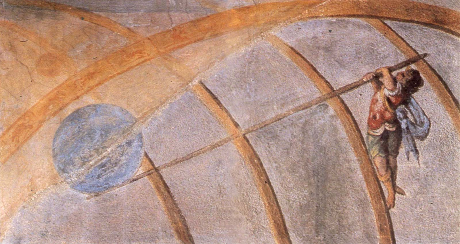 Wall painting of Archimedes' lever, painted in the years 1599-1600.